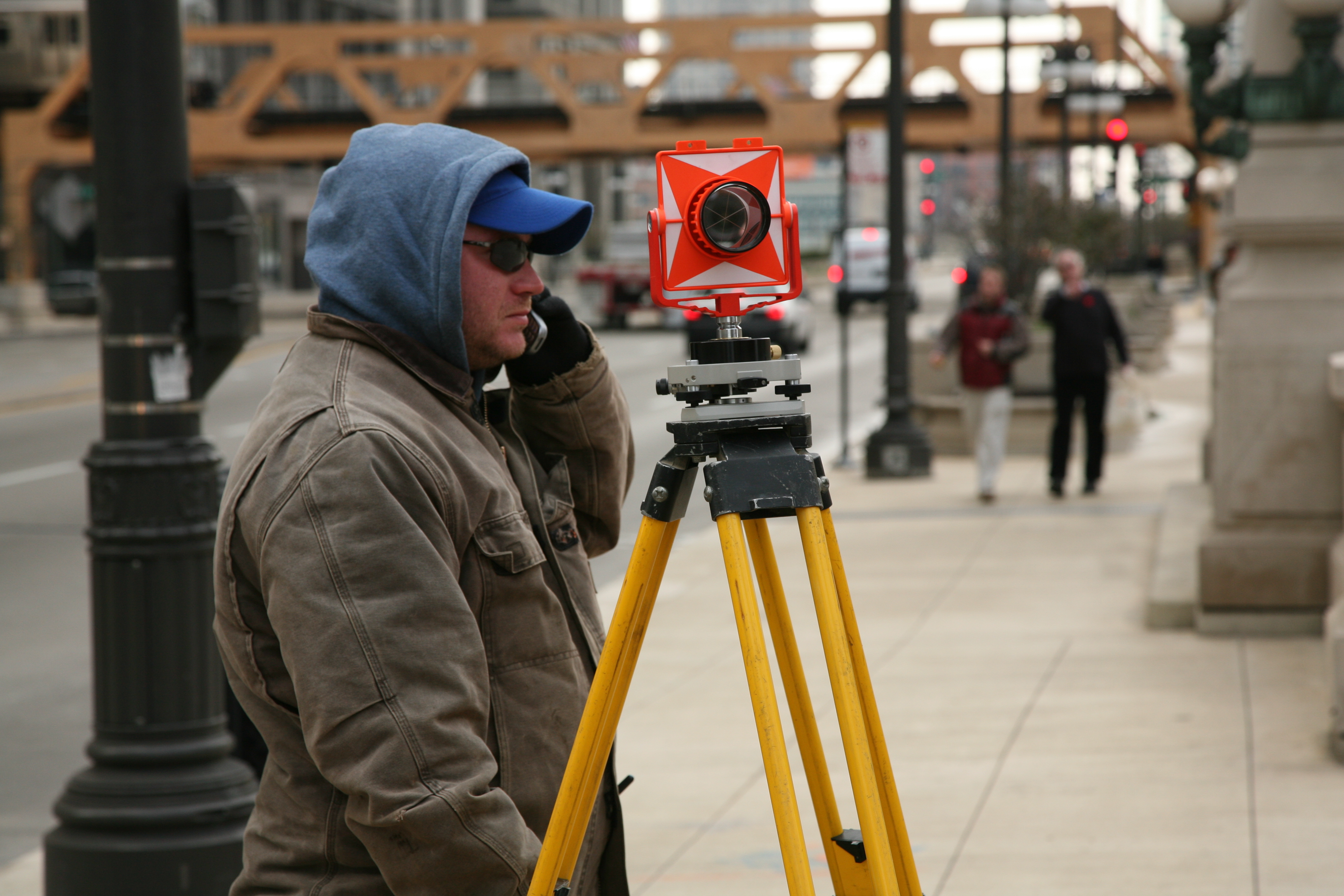 Surveyor in Chicago with a laser reflector